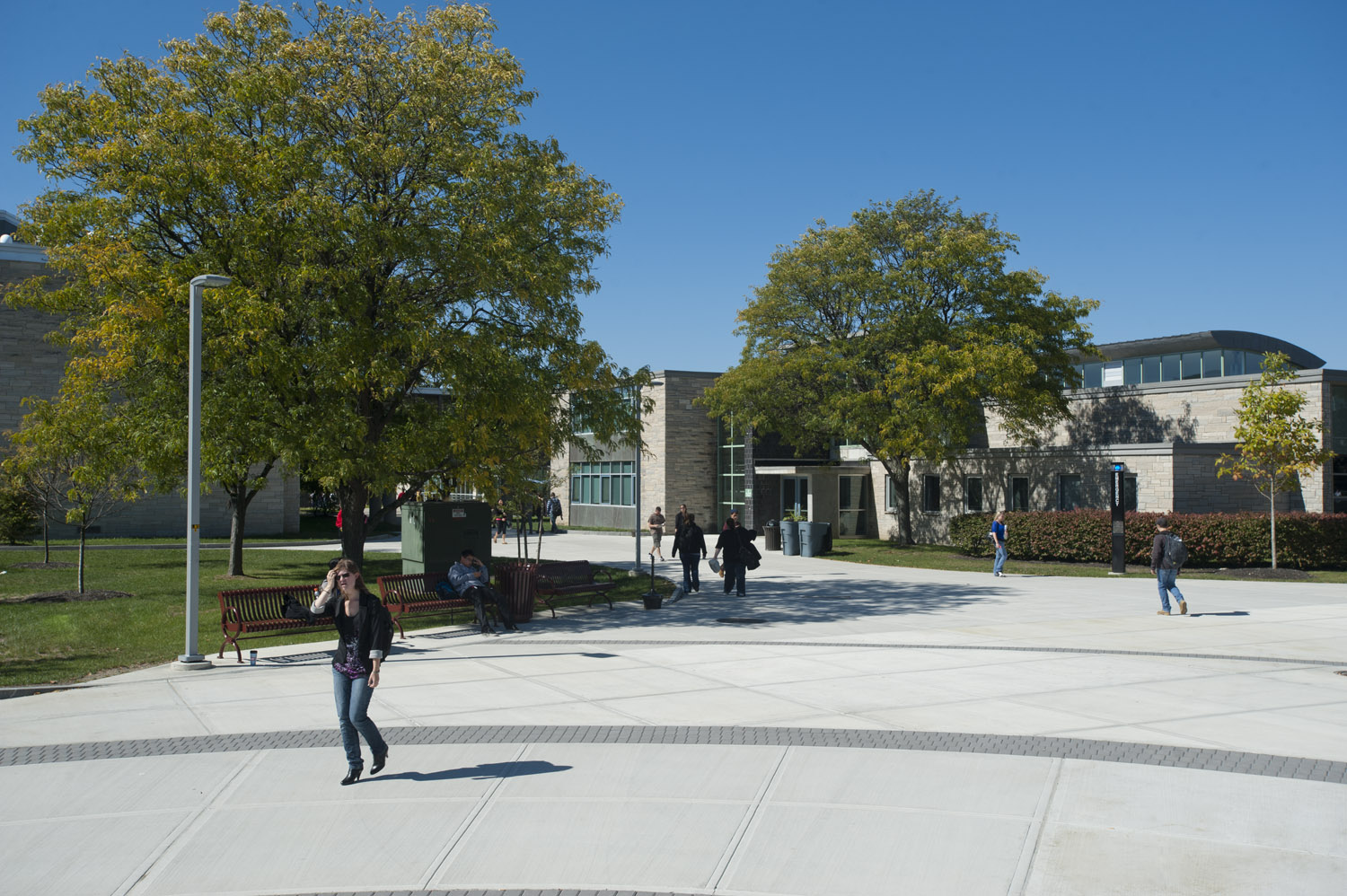 The "old quad" at Hudson Valley Community College. Guenther Enrollment Services Center in the background.